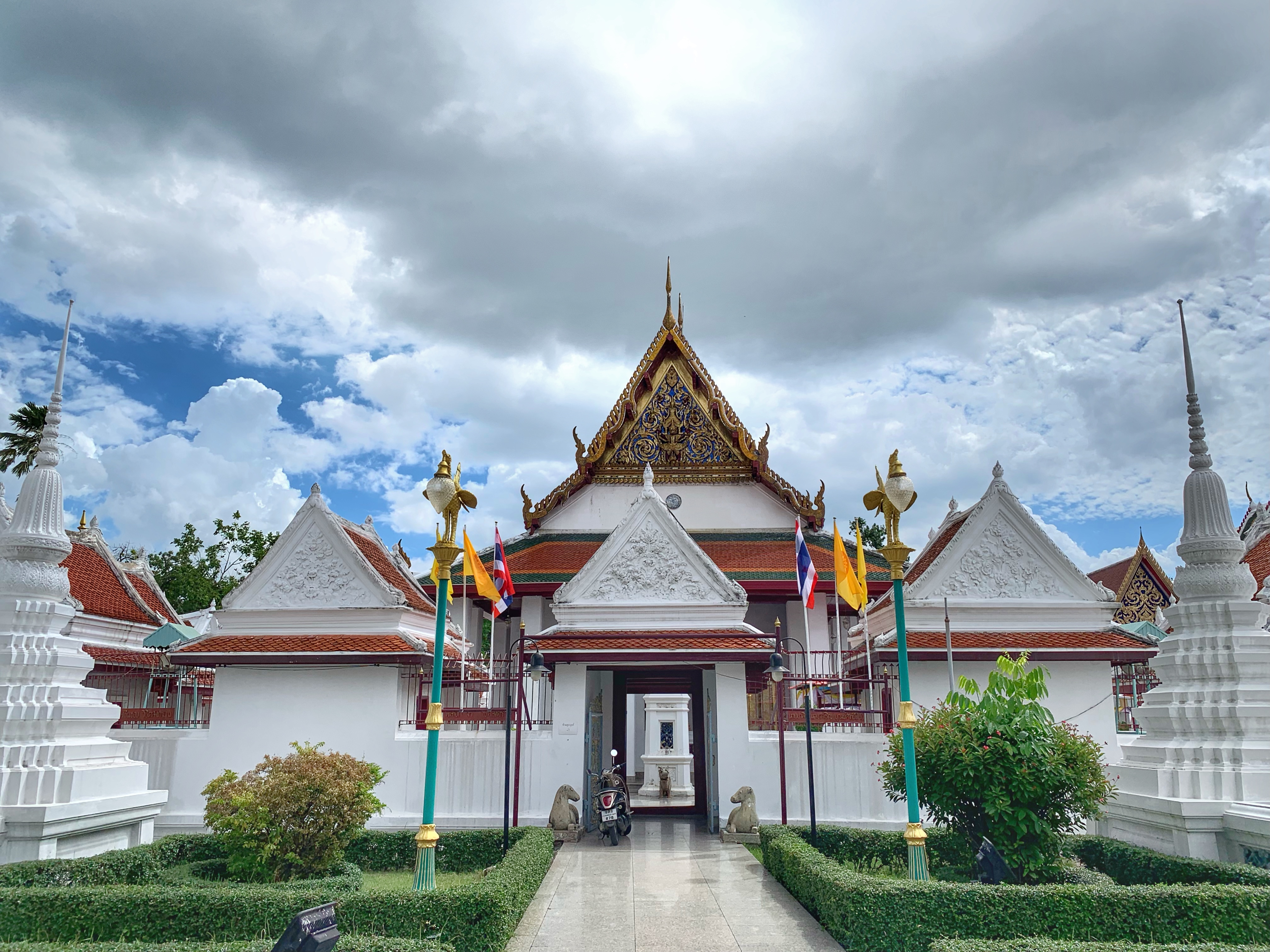 Wat Ratchasittharam, Bangkok